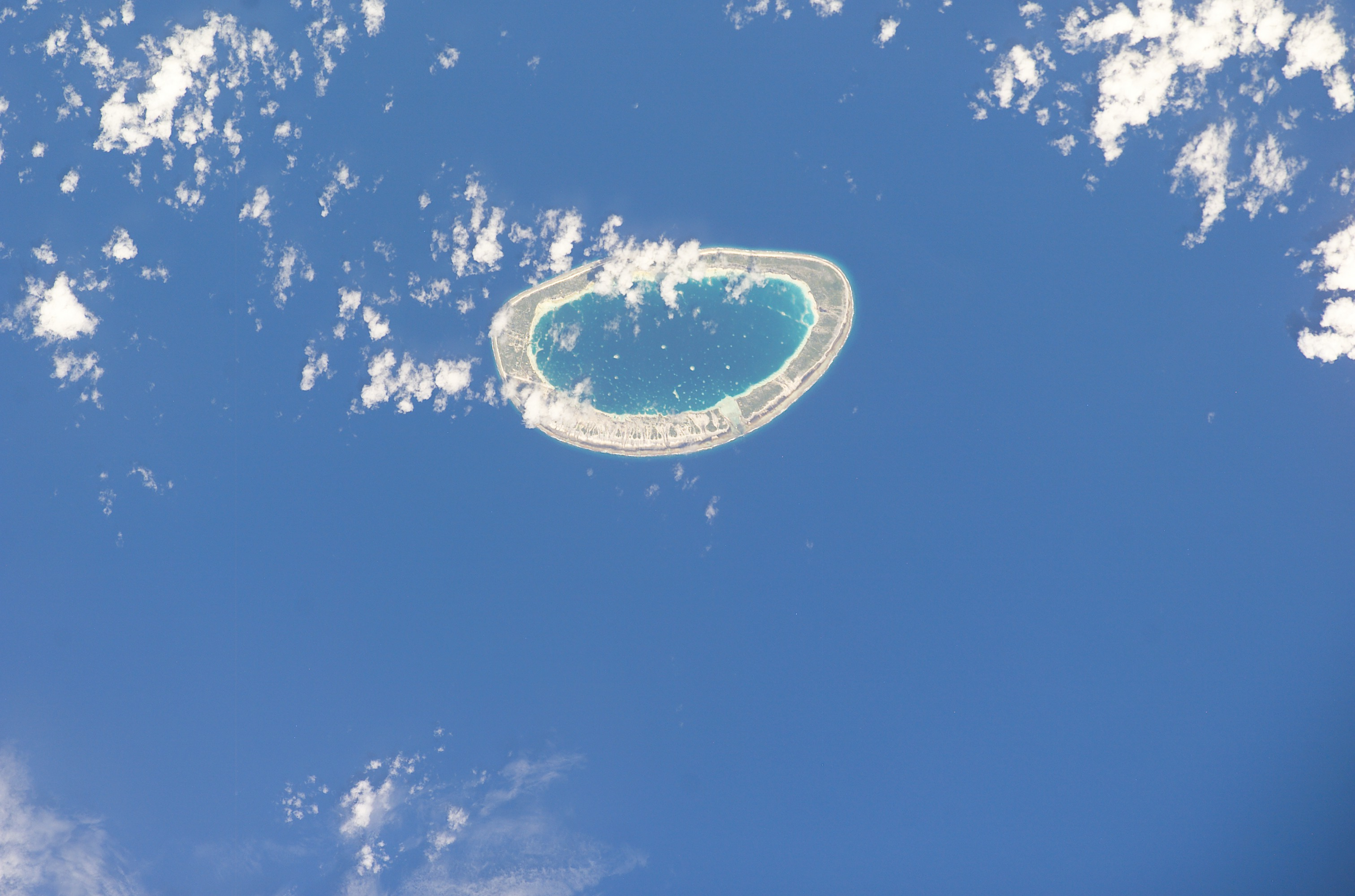 An image from the International Space Station of the Fakahina Atoll in the Tuamotu Archipelago, French Polynesia.